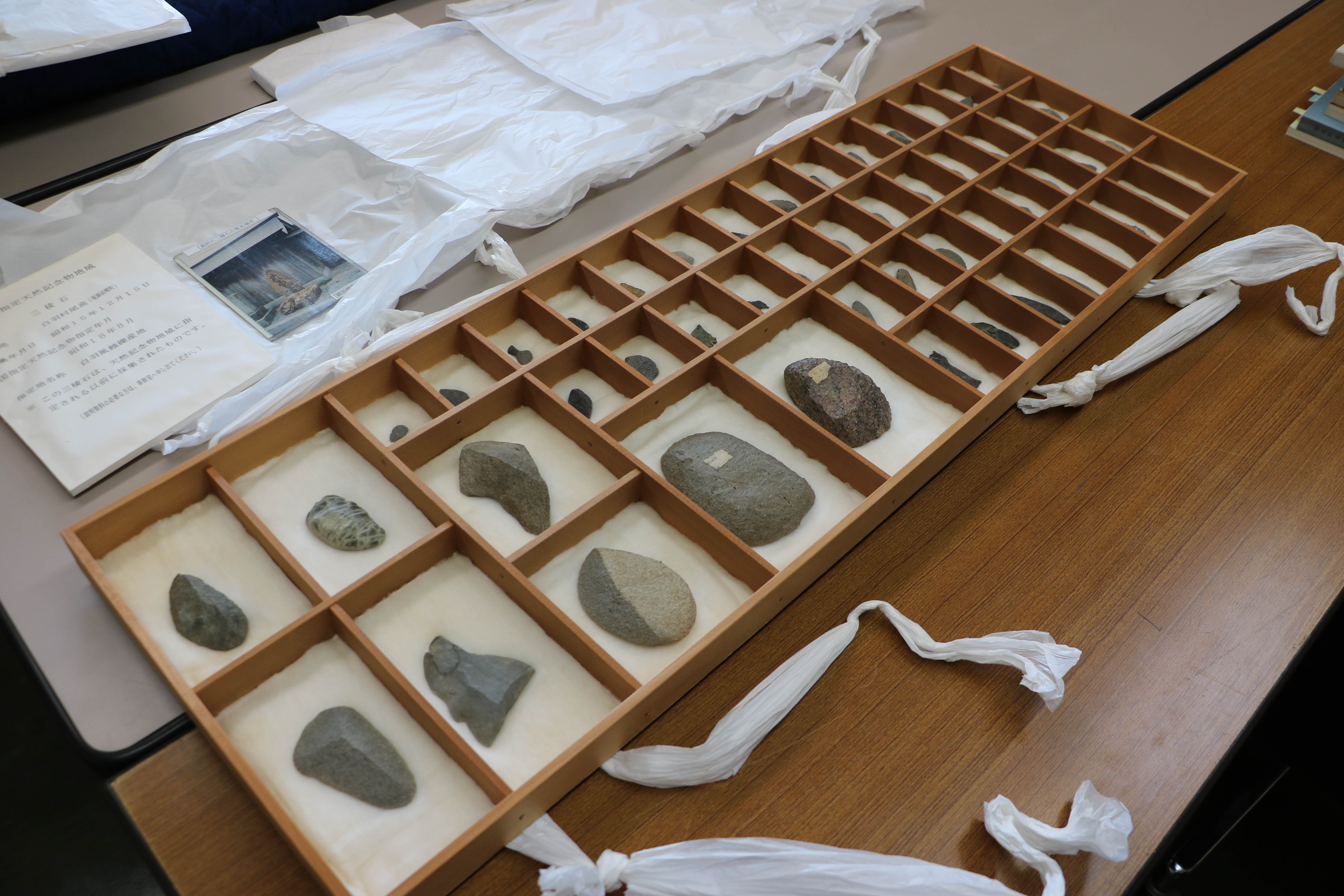 Shirowa district Dreikanter and Ventifacts production area wind erosion stone specimens collected in December 1940